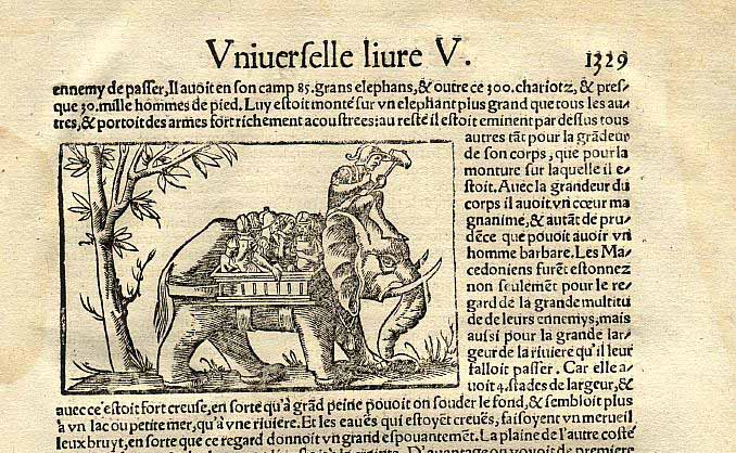 Porus’s elephant cavalry, according to Munster’s famous Cosmographia (1544) Source: ebay, Apr. 2004 "Woodcut leaf from "Cosmographia" (1544) by Sebastian Münster. French edition; Basel printing house of Sebastian Heinrich-Petri 1552. Book V, pages 1329/30. This leaf from the early French edition of Cosmographia is devoted conquest of India by Alexander the Great. It describes the greatest of Alexander's battles in India against Porus, one of the most powerful Indian leaders - the rajah of the lands between the Jhelum and the Chenab rivers in the Punjab. The battle took place in July 326 B.C.E. at the river Hydaspes. After facing the Indians for days across an unfordable river, Alexander, by using diversionary tactics, managed to cross the stream above their camp. More troublesome to Alexander than the numerical superiority of Porus' 34,000-man army were the 200 elephants that threatened the effectiveness of the Macedonian cavalry. During the battle, Alexander overwhelmed Porus' left wing, forcing it back upon the elephants, which panicked and plunged riderless into the Indian ranks. The Macedonian phalanx then routed the enemy. Alexander captured Porus and, like the other local rulers he had defeated, allowed him to continue to govern his territory. Alexander even subdued an independent province and granted it to Porus as a gift. The leaf contains one excellent woodcut picture (3" x 4") of a military unit consisting of an elephant carrying a group of soldiers."